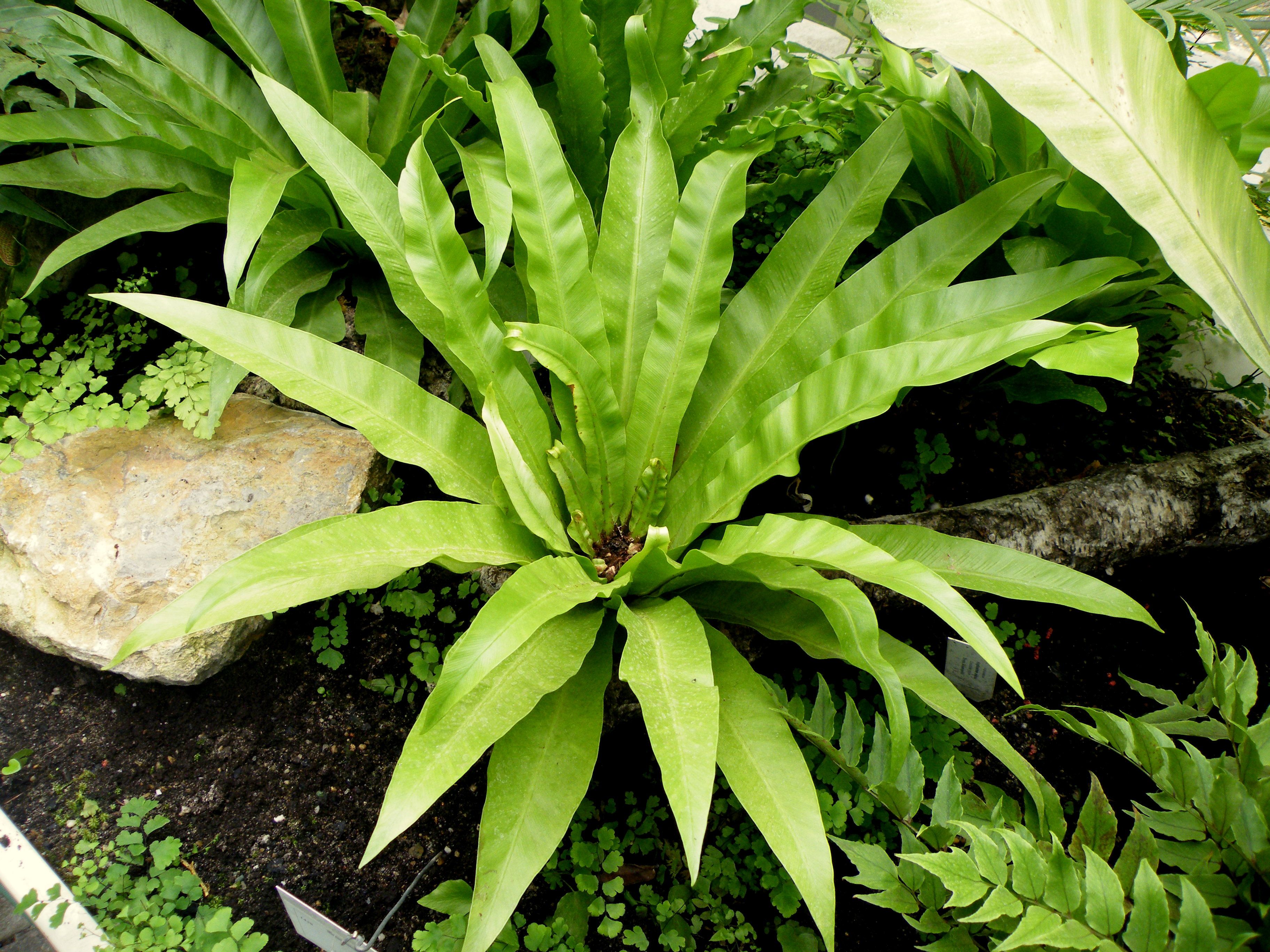 Asplenium nidus forms large simple fronds visually similar to banana leaves, with the fronds growing to 50–120 centimetres long and 10–60 centimetres broad. This media file is produced by Wikipedian in Residence in Botanical Garden Jevremovac in 2015.